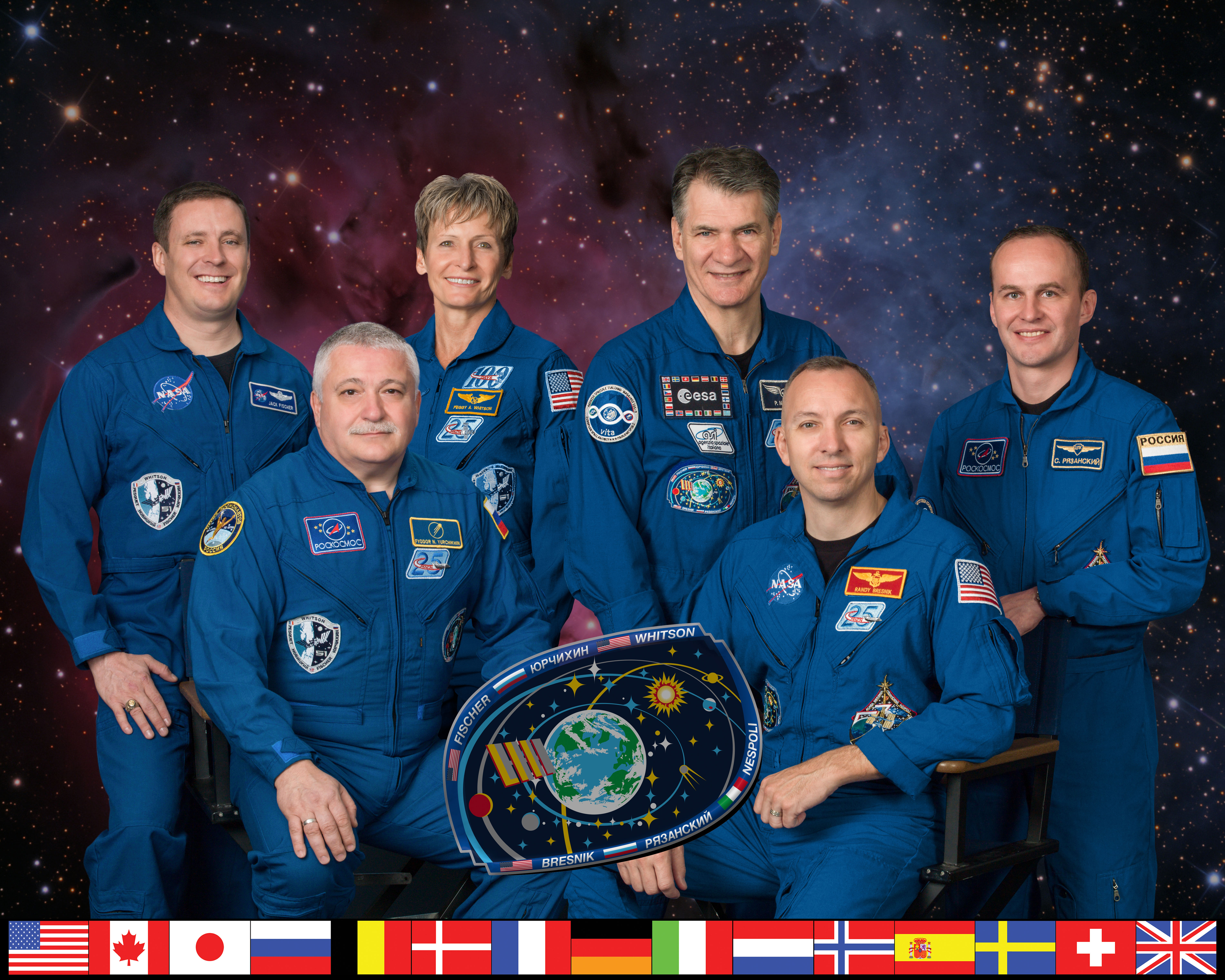 The Expedition 52 crew members (front row, from left) are Commander Fyodor Yurchikhin and NASA astronaut Randy Bresnik. In the back row (from left) are, NASA astronauts Jack Fischer and Peggy Whitson, European Space Agency astronaut Paolo Nespoli and Roscosmos cosmonaut Sergey Ryazanskiy.